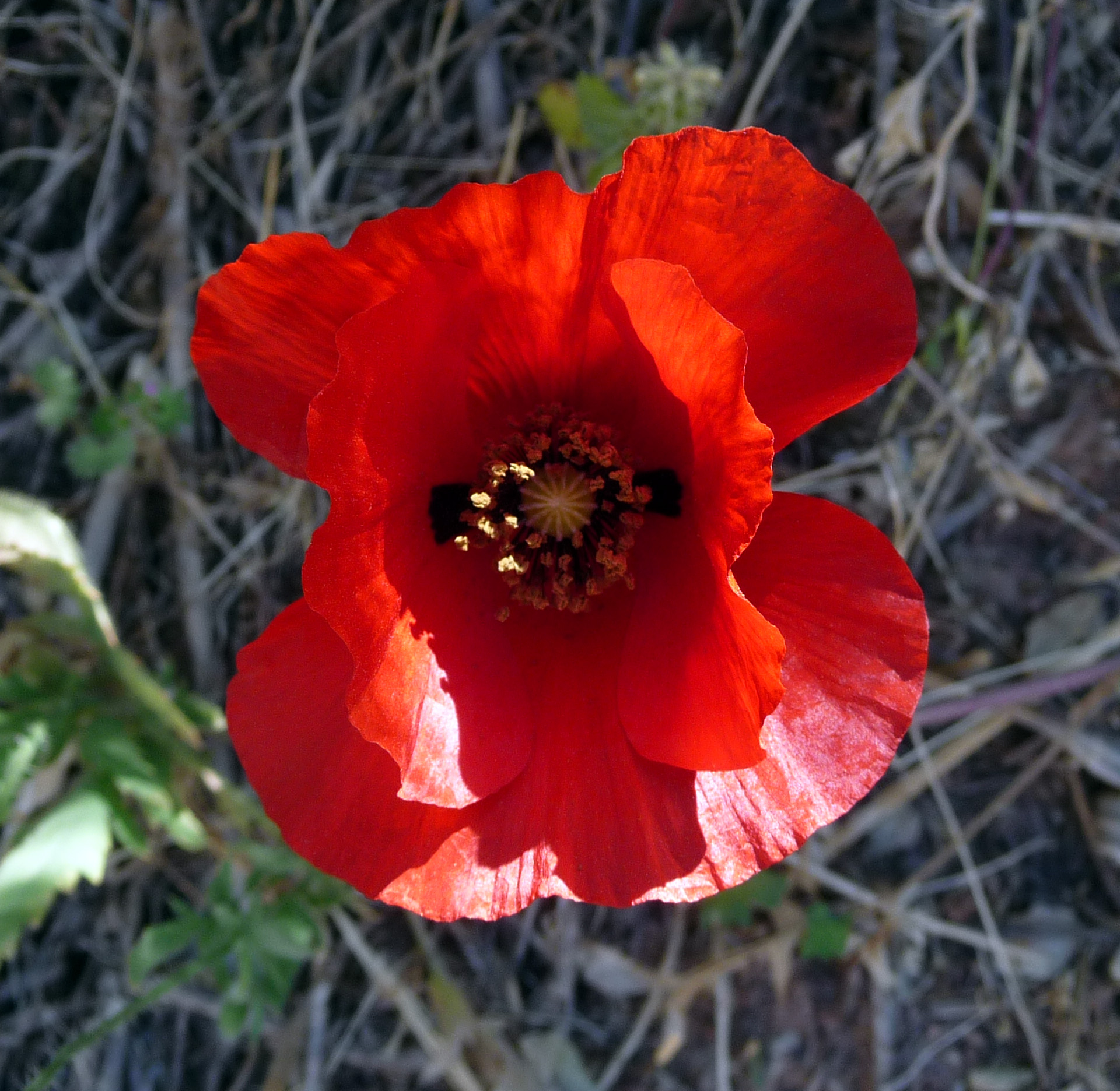 Red-horned Poppy? Glaucium corniculatum